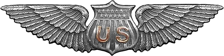 United States Army Aviator Wings - World War II era. Made with Photoshop.